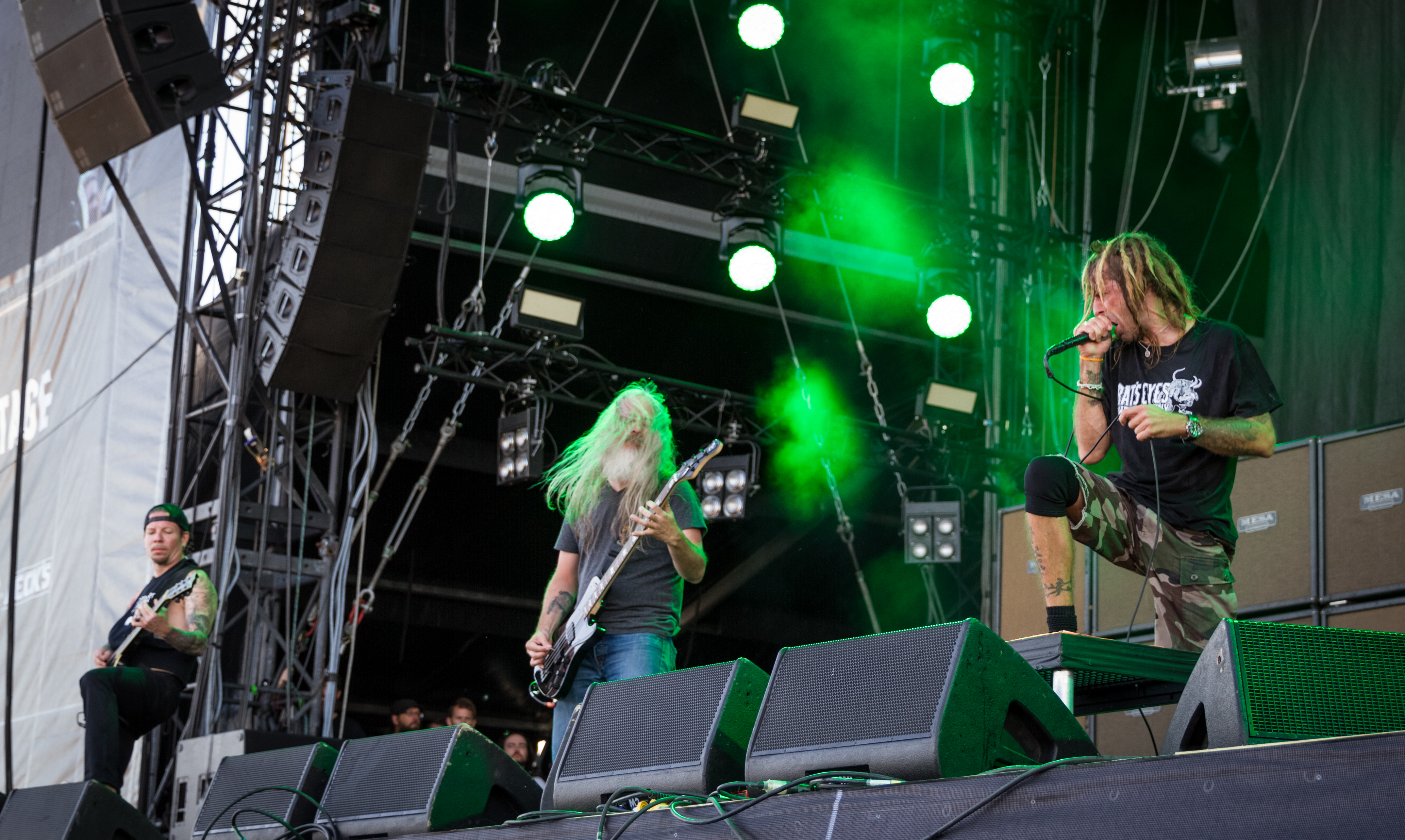 Lamb Of God - Rock am Ring 2015